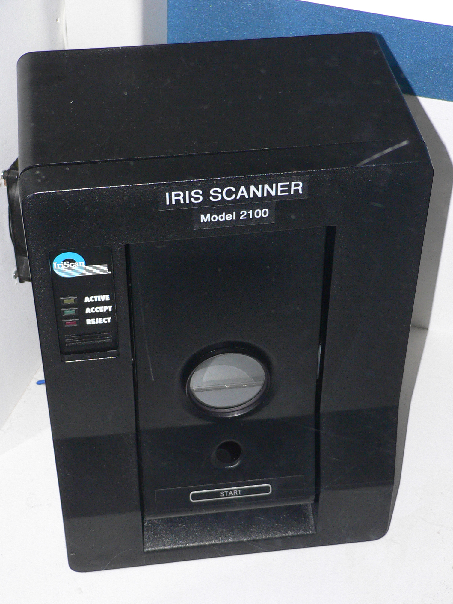 Pictures taken by myself at the US National Cryptologic Museum.